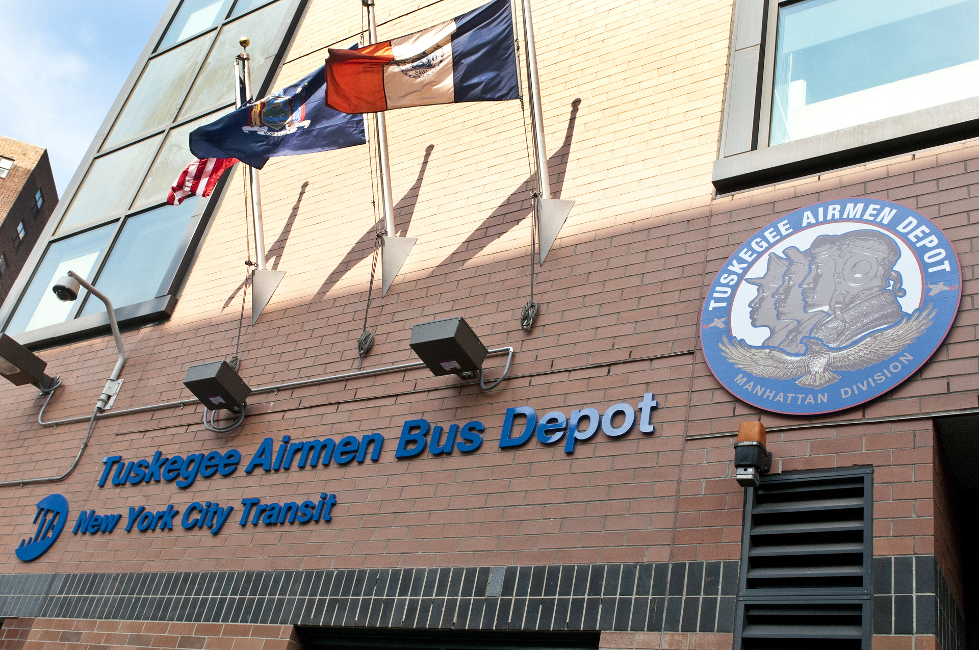 In honor of the World War II African-American military pilots and support personnel who made up the famed flight-training program at Tuskegee Army Air Field, on March 23, 2012, MTA New York City Transit renamed the 100th Street Bus Depot as The Tuskegee Airmen Bus Depot. Photo by Metropolitan Transportation Authority / Patrick Cashin.